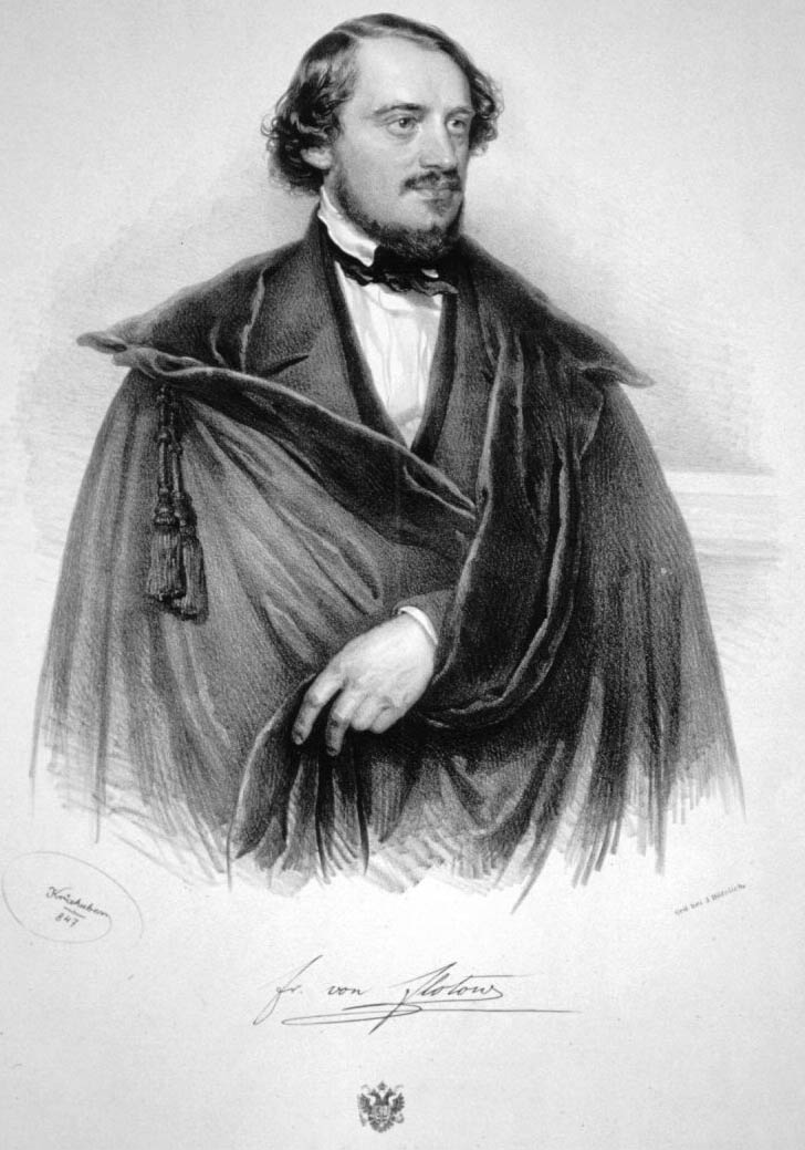 Friedrich von Flotow (1812-1883), German opera composer